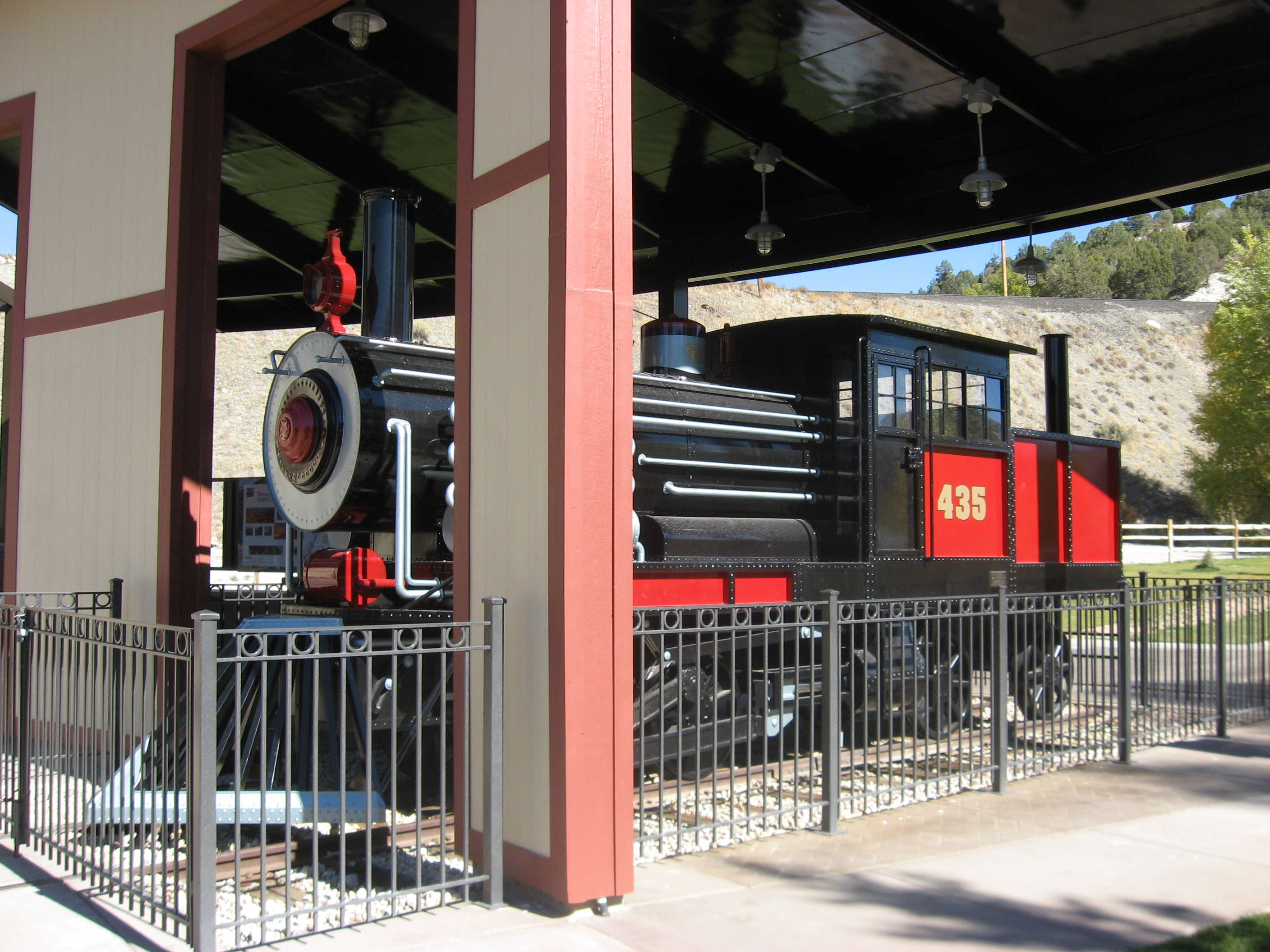 Tie Fork rest stop Hwy 6 Utah (Steam Engine number 435) parked in the roundhouse.